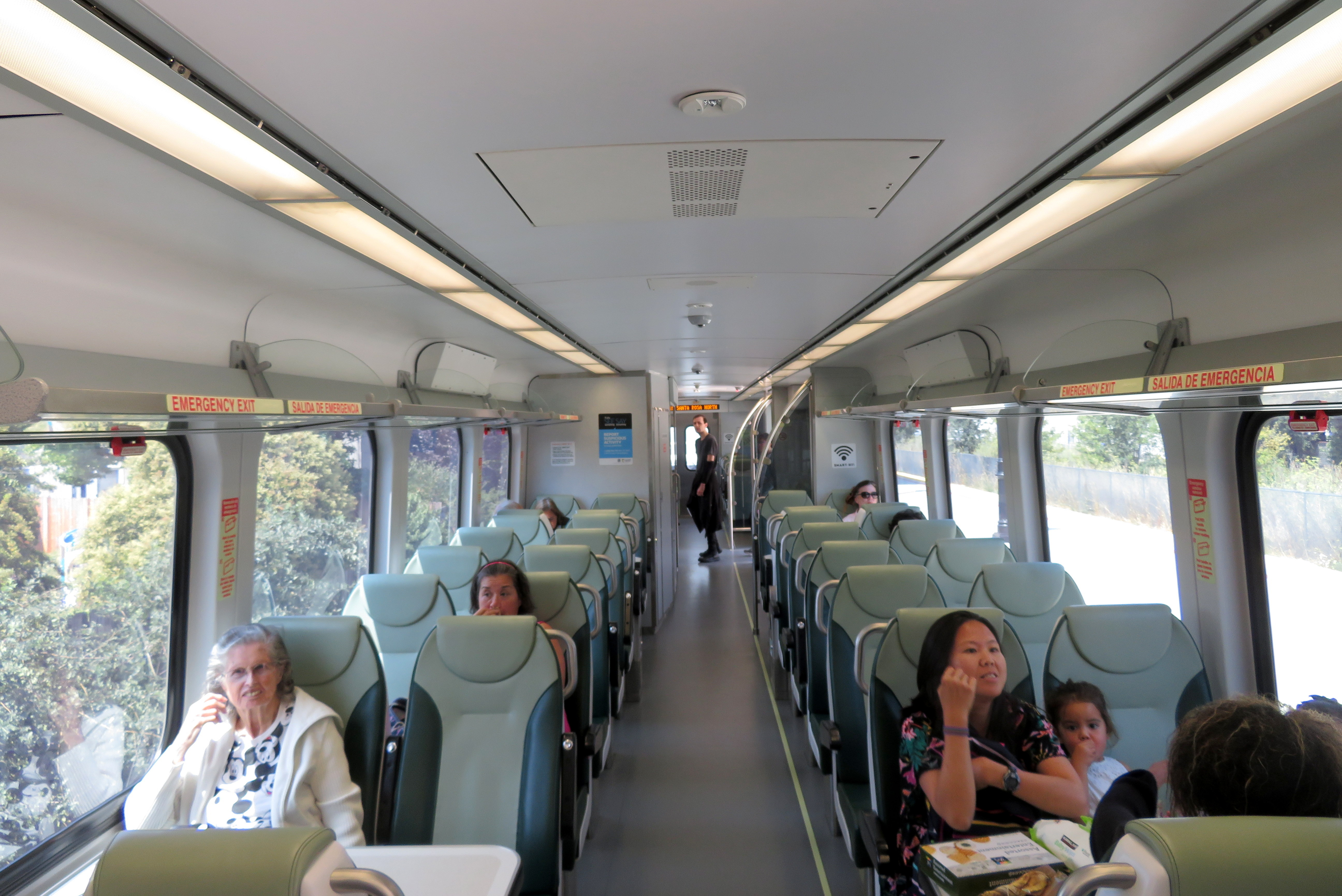 Interior of a SMART train in August 2018